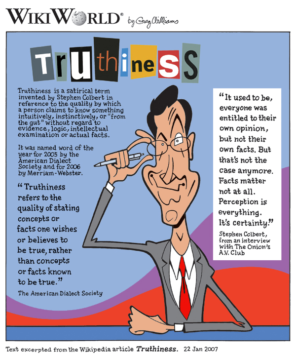 Truthiness cartoon